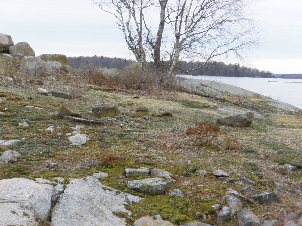 Picture from the little island Fläsklösen in Lake Järnlunden, Sweden. Showing where Kalle-Stina lived.